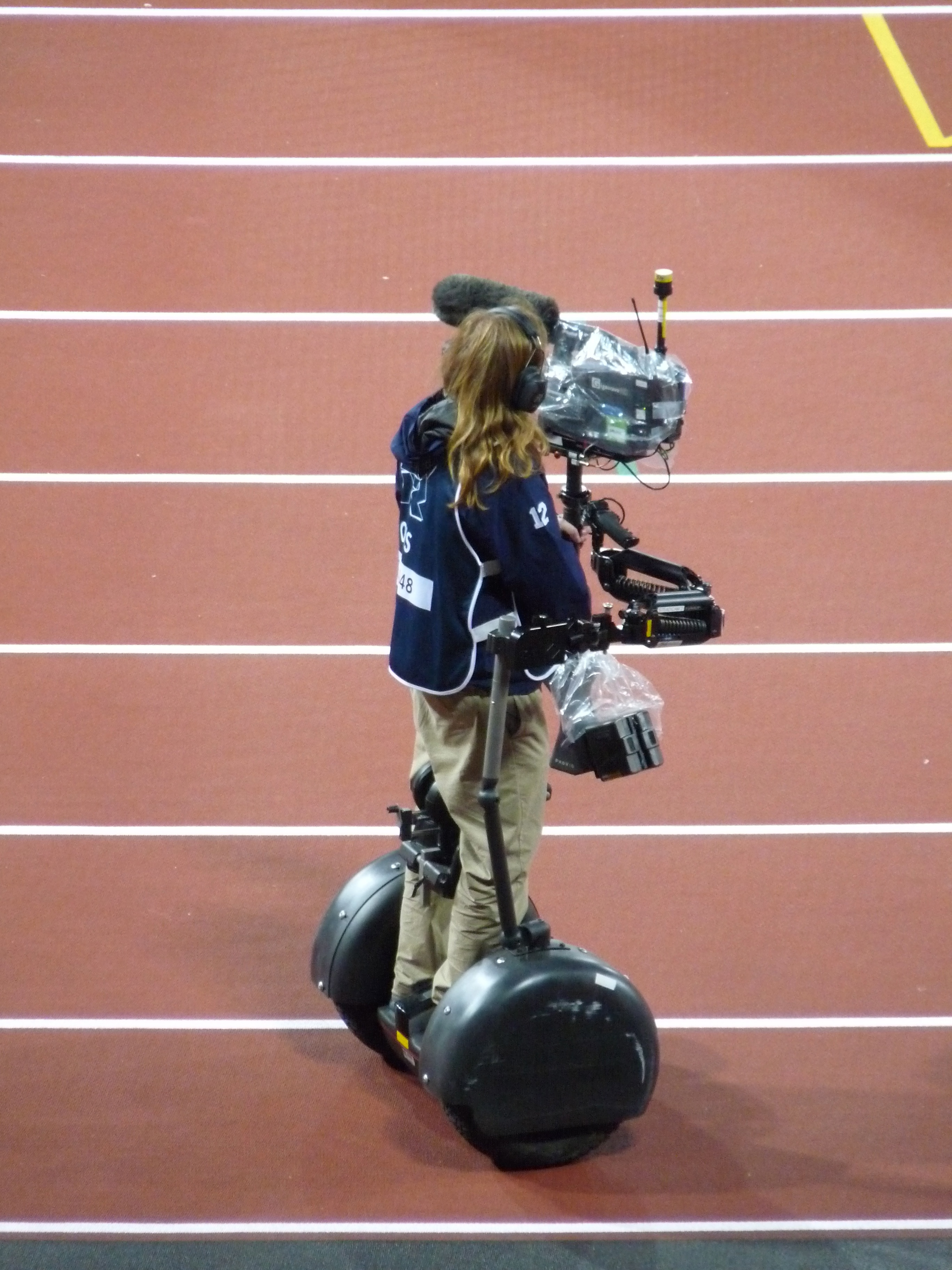 Very cool rig for moving beside the runners on the opposite side of the stadium from the mounted cameras that run the 100m to the finish line.